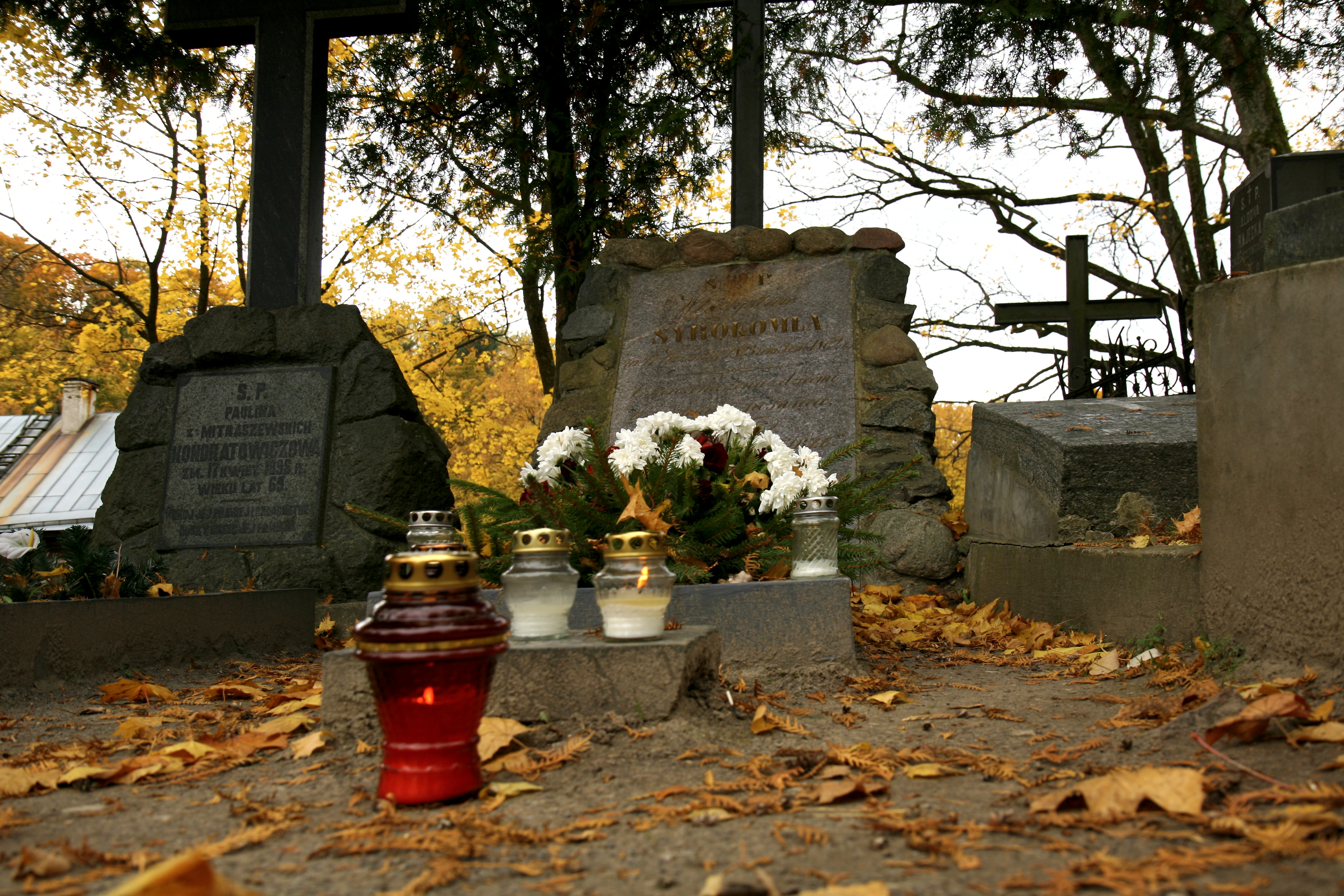 Gravestone at the grave of Władysław Syrokomla at Rasos Cemetery in Vilnius. October 2008. Помнік над магілай Уладзіслава Сыракомлі на могілках Росы ў Вільні. Кастрычнік 2008 г.